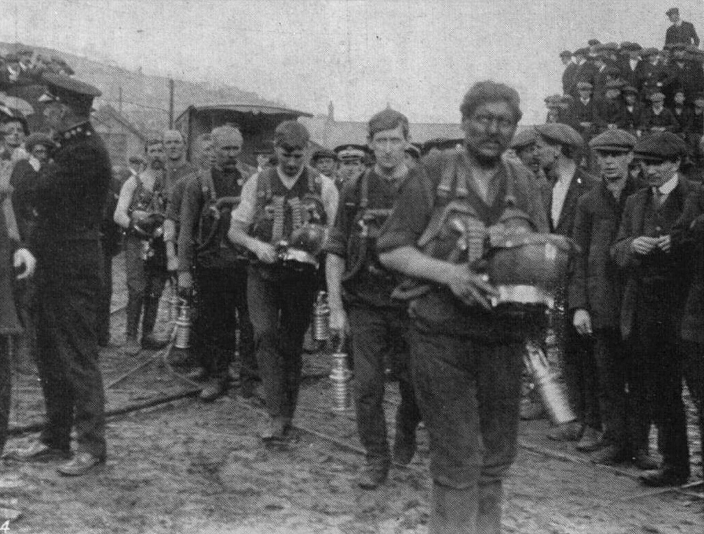 Photograph from The Illustrated London News of 18 October 1913 (issue 3887; page 4). Article titled "The Burning Pit Disaster: Rescue Scenes at the Universal Colliery".